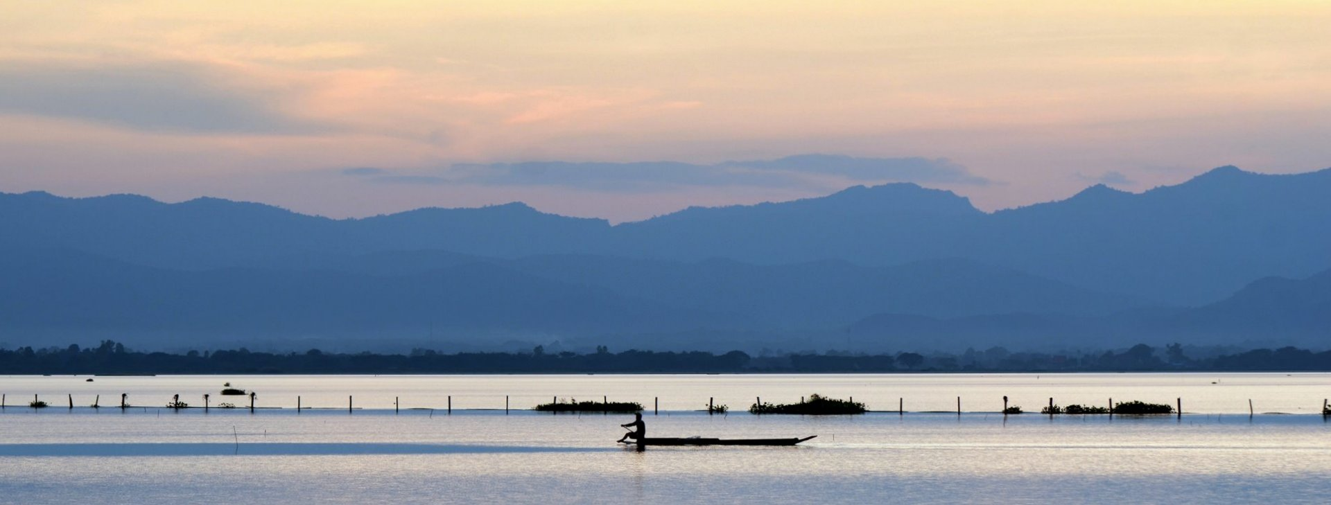 Phayao lake at sunset